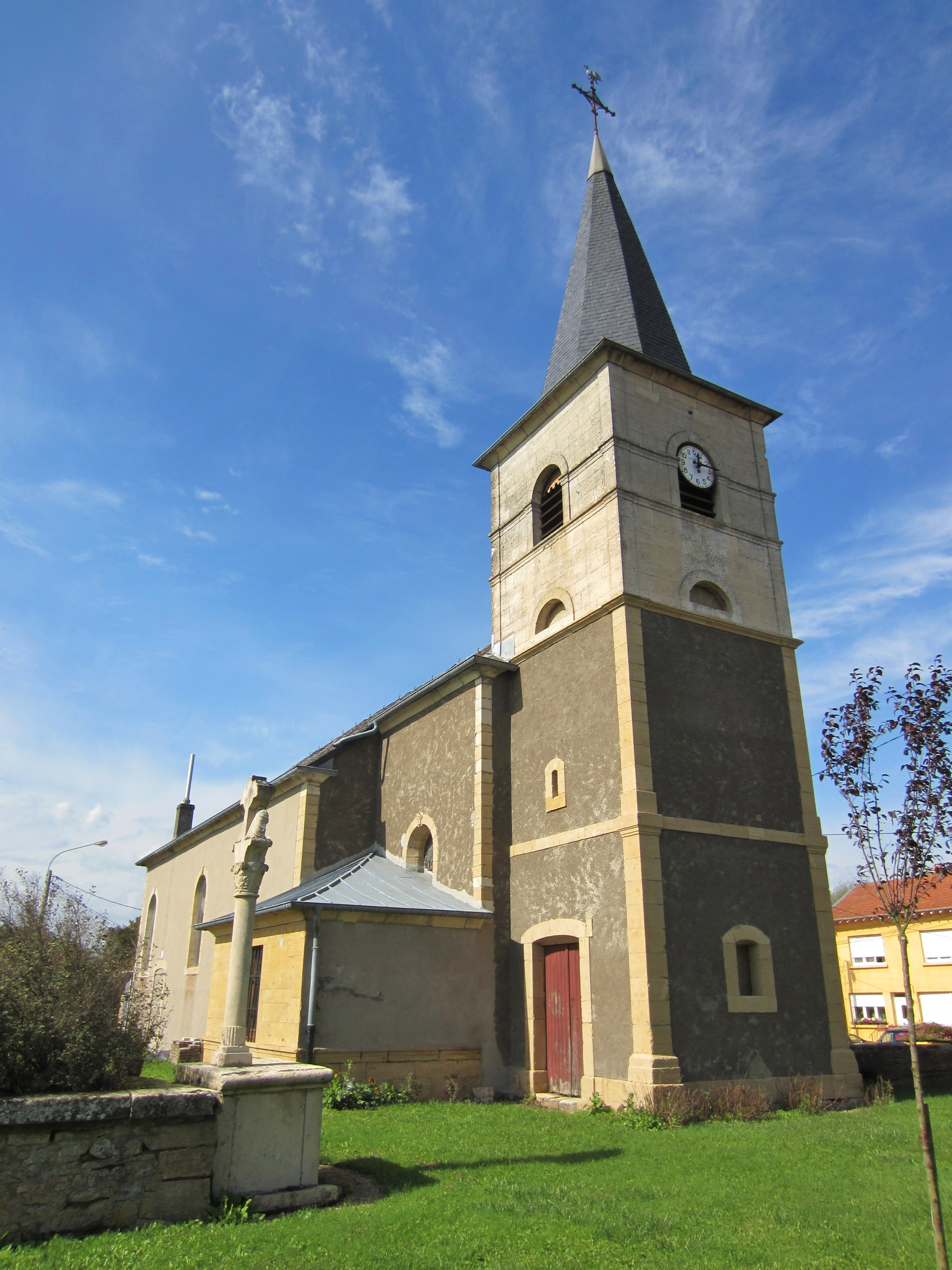 Description eglise Brehain ville Date16 September 2011Sourcemon appareil photoAuthorAimelaimePermission (Reusing this file) eglise Brehain ville